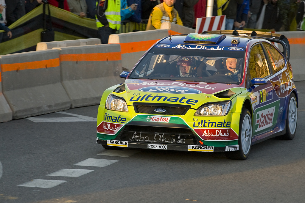 Mikko Hirvonen driving his Ford Focus RS WRC 08 at the 2008 Rally Catalunya.